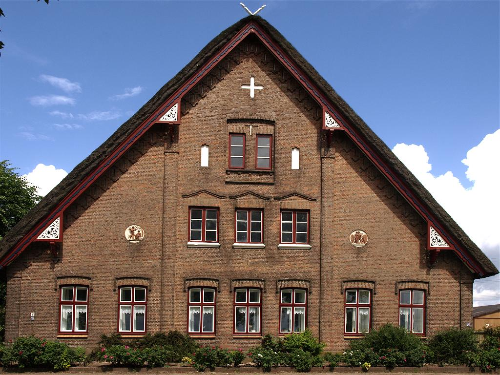 Grevenkop - Schleswig-Holstein (Germany), Farmbuilding at Hauptstraße, photo 2009